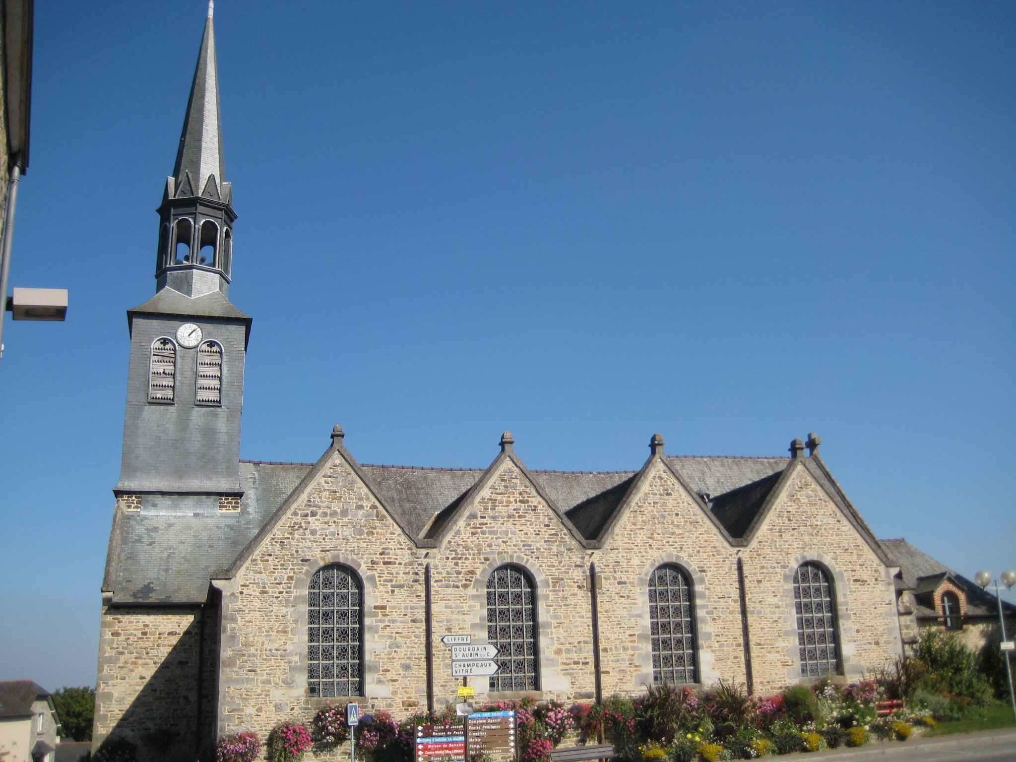 Church of La Bouëxière